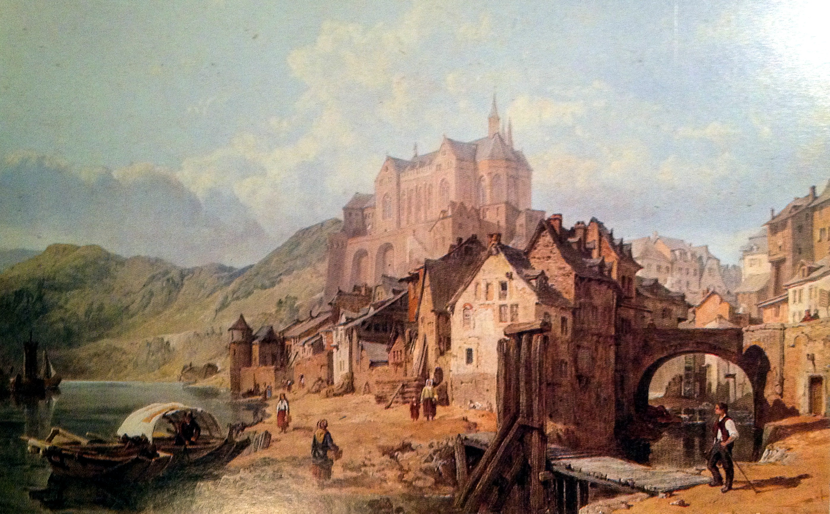 Saarburg, Rhineland-Palatinate, ca. 1850. Oil on Canvas, 35x53cm, today in the Saarland Museum, Saarbruecken